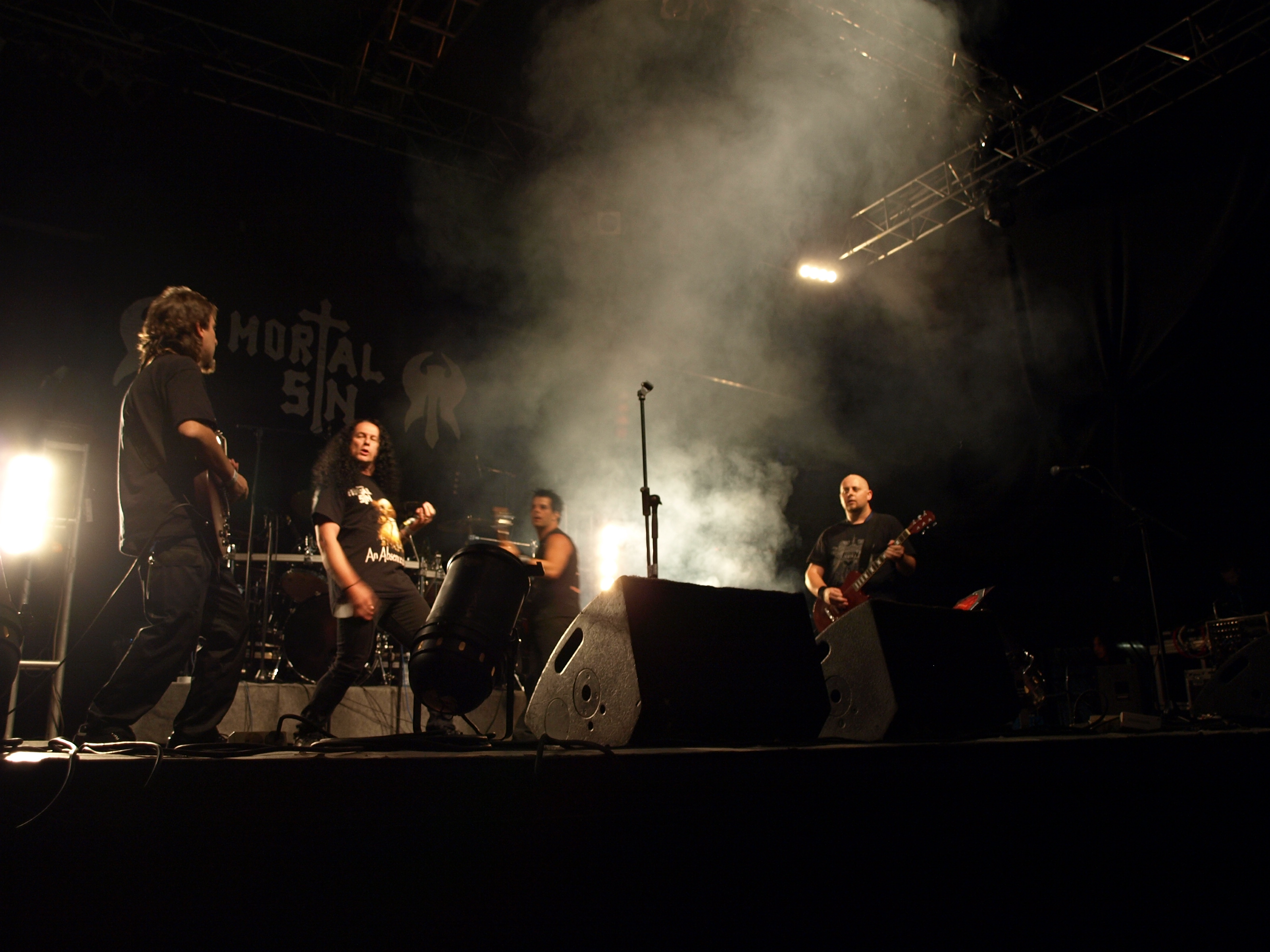 Australian Thrash metal band Mortal Sin live at Jalometalli 2008 in Oulu.